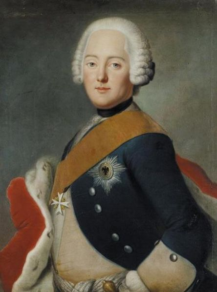 Portrait of Duke Ferdinand of Brunswick) (1721-1792)